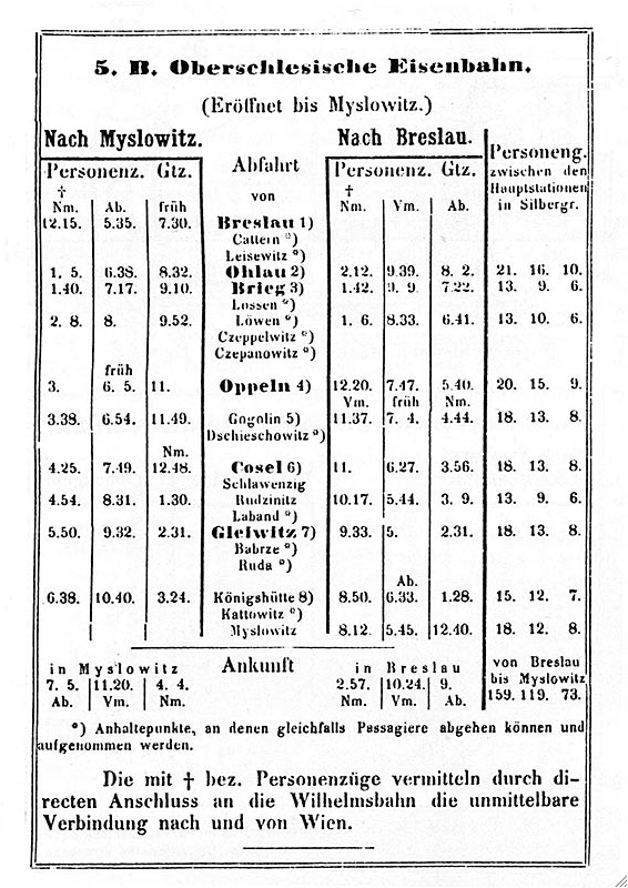 Timetable of the Upper Silesian Railway short after the junction to Austrian northern Railway in October 1848